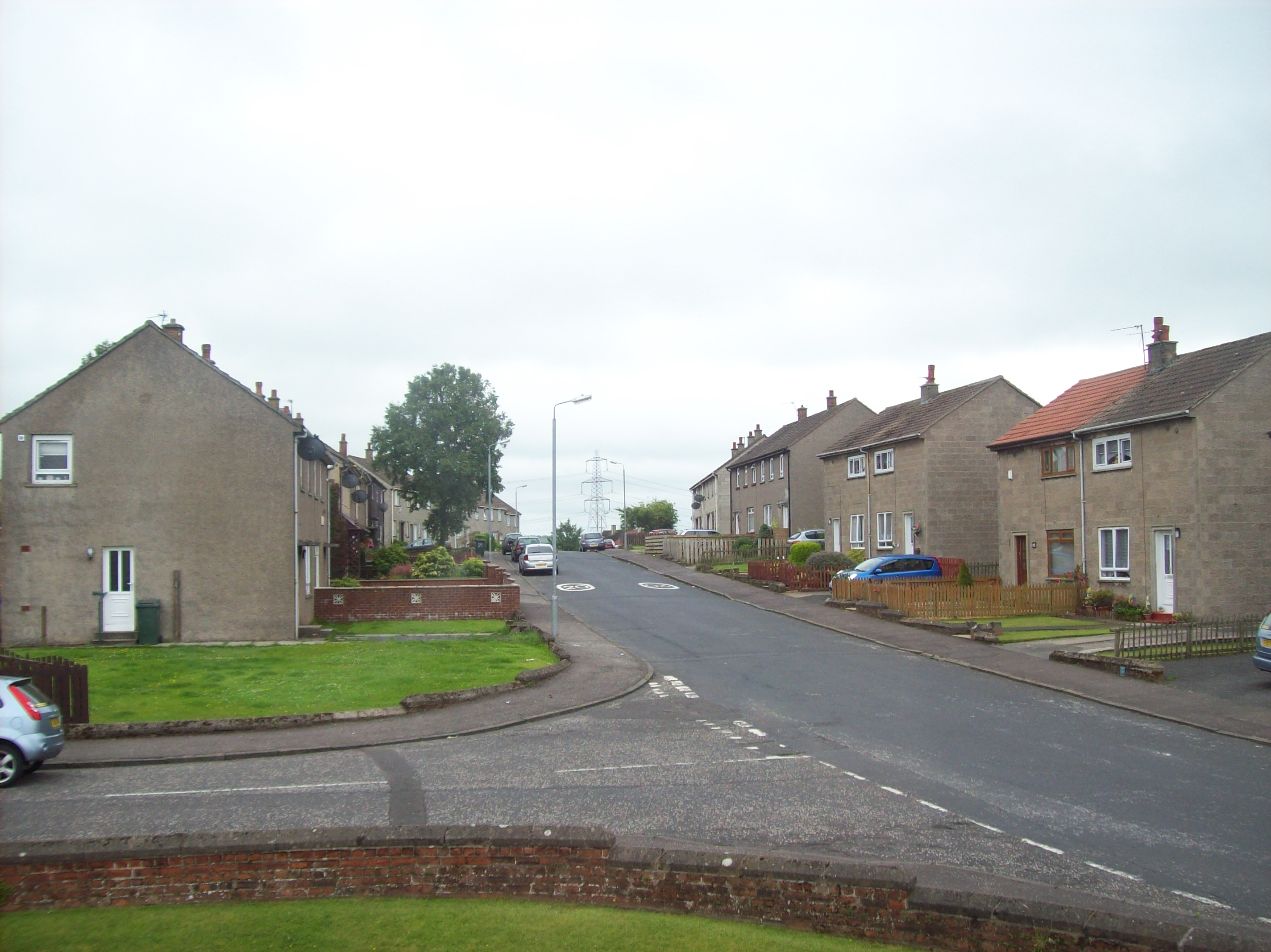 English